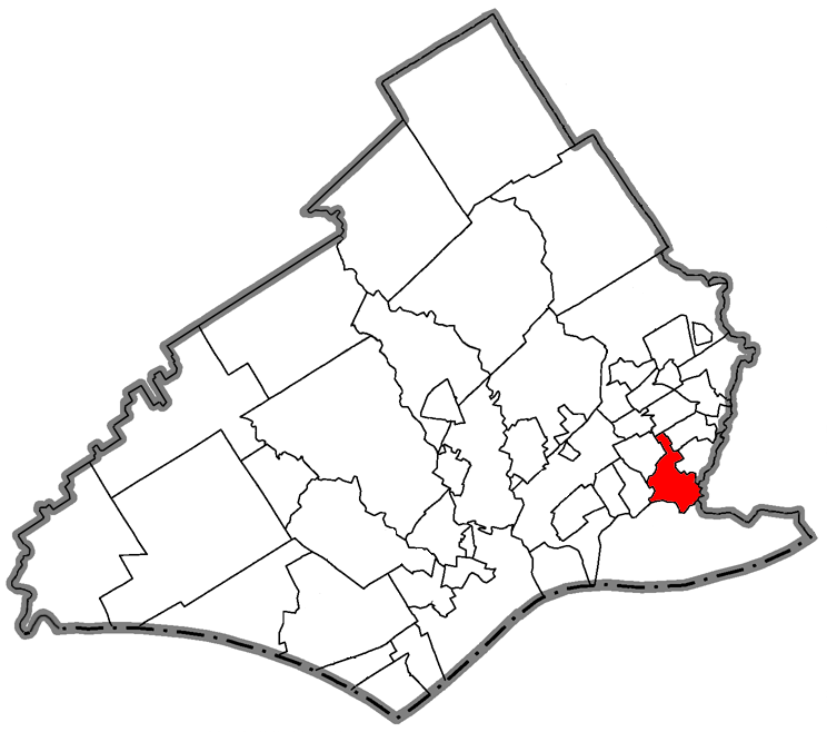 Showing the location within Delaware County, Pennsylvania.